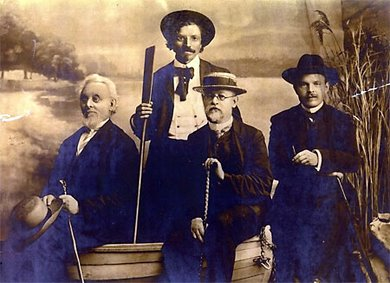 Jewish Writers, Odessa 1910. L-R: Mendele Mocher Sefarim, Sholem Aleichem, Ben-Ami, H.N. Bialik